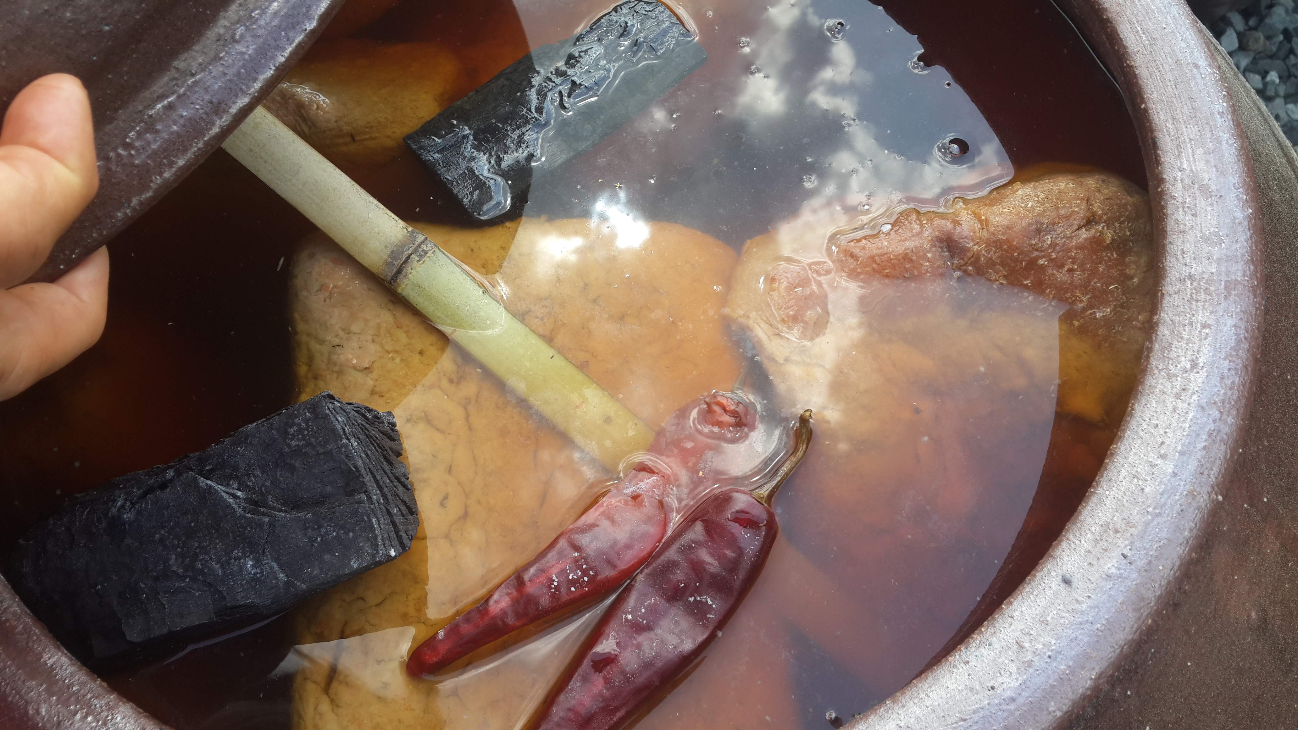 Korean traditional condiment of doenjang in jangdok pottery. It goes through fermentation.